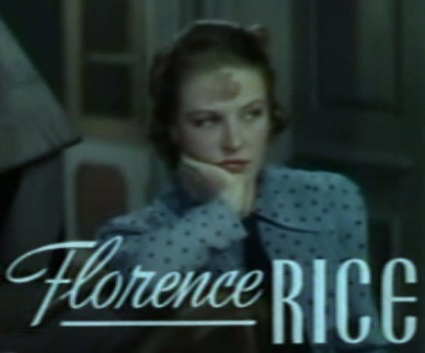 Cropped screenshot of Florence Rice from the trailer for the film Sweethearts